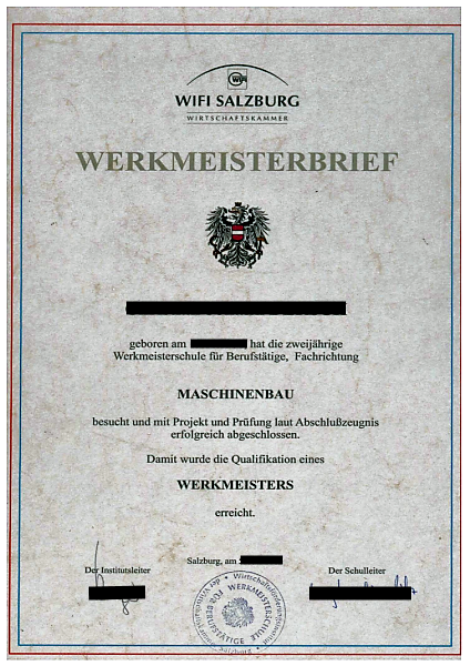 Austrian professional higher education diploma